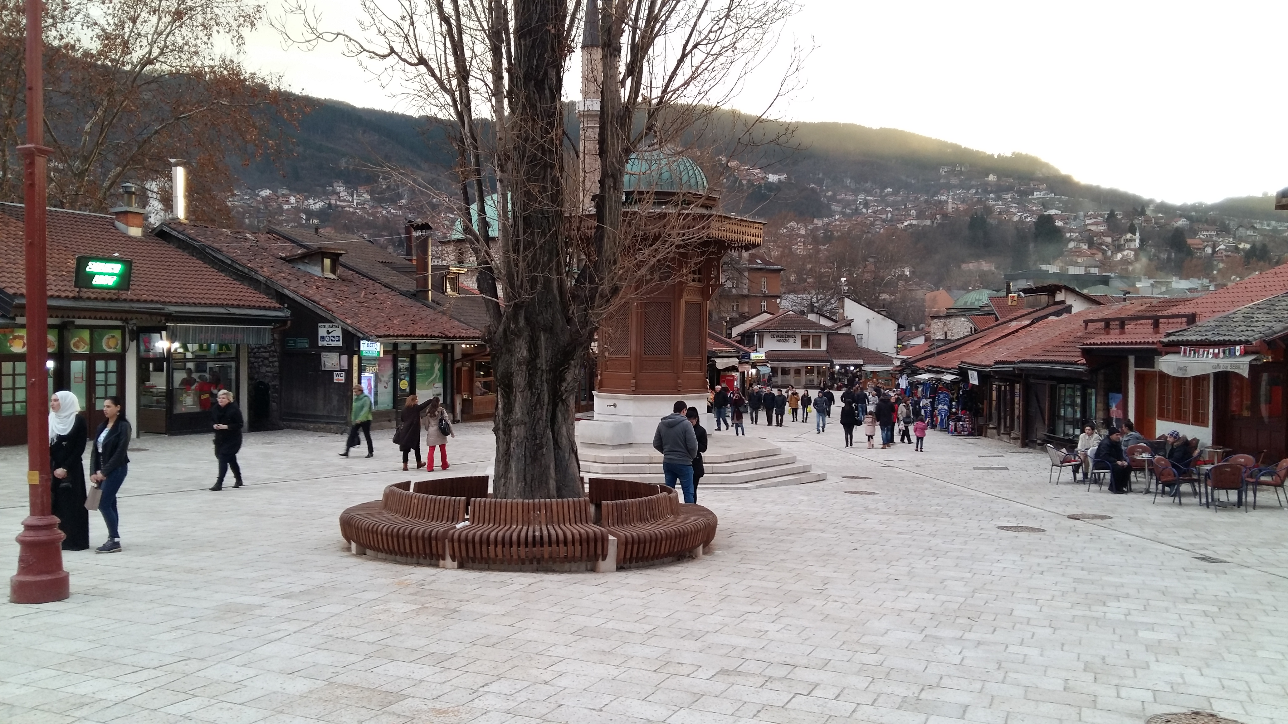 Bascarsija after reconstruction